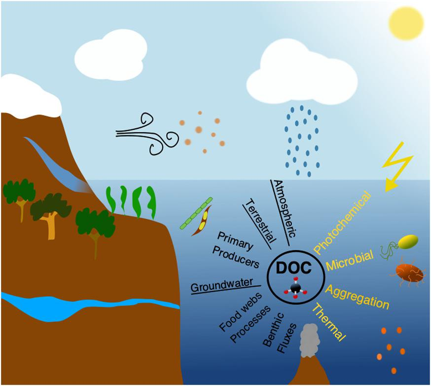 Main sources of ocean dissolved organic carbon Simplified view of the main sources (black text; underlined are the allochthonous sources) and sinks (yellow text) of the oceanic dissolved organic carbon (DOC) pool. Most commonly referred sources of DOC are: atmospheric (e.g., rain and dust), terrestrial (e.g., rivers), primary producers (e.g., microalgae, cyanobacteria, macrophytes), groundwater, food chain processes (e.g., zooplankton grazing), and benthic fluxes (exchange of DOC across the sediment-water interface but also from hydrothermal vents). The four main processes removing DOC from the water column are: photodegradation (most notably UV-radiation; it should be noted that sometimes photodegradation “transforms” rather than “removes” DOC, ending up in higher molecular weight complex molecules), microbial (mainly by prokaryotes), aggregation (primarily when river and seawater mixes) and thermal degradation (in e.g., hydrothermal systems).